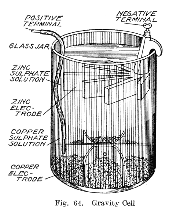 Engraving of a gravity cell from the Cyclopedia of Telegraphy and Telephony, published in 1919.